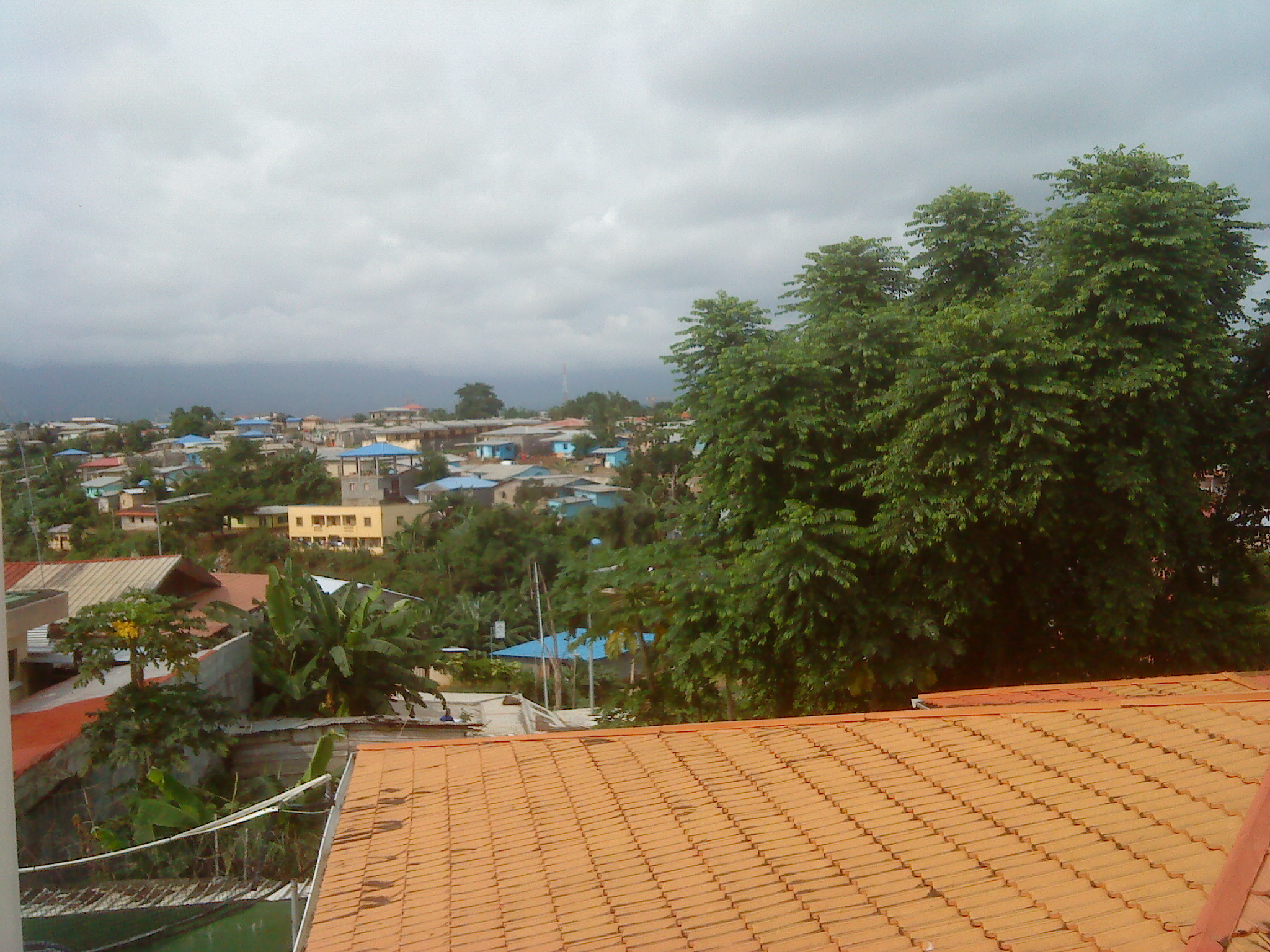 Ciudad de Malabo